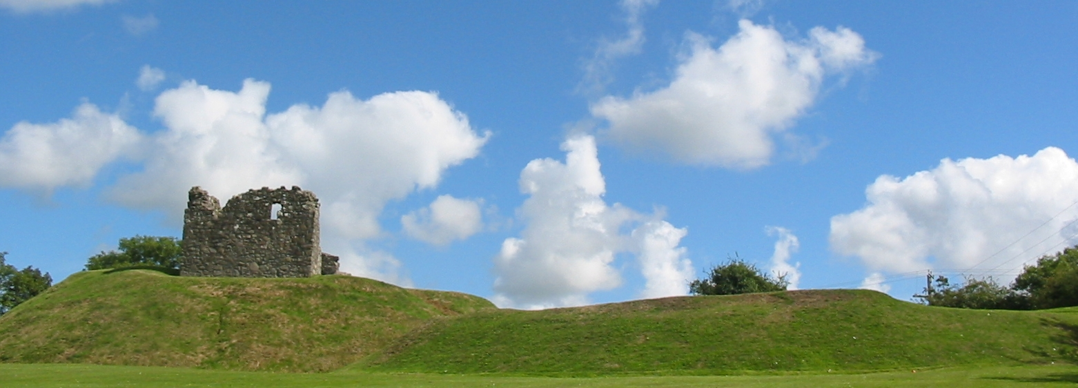 Clough Castle, County Down - Norman motte and bailey with later keep